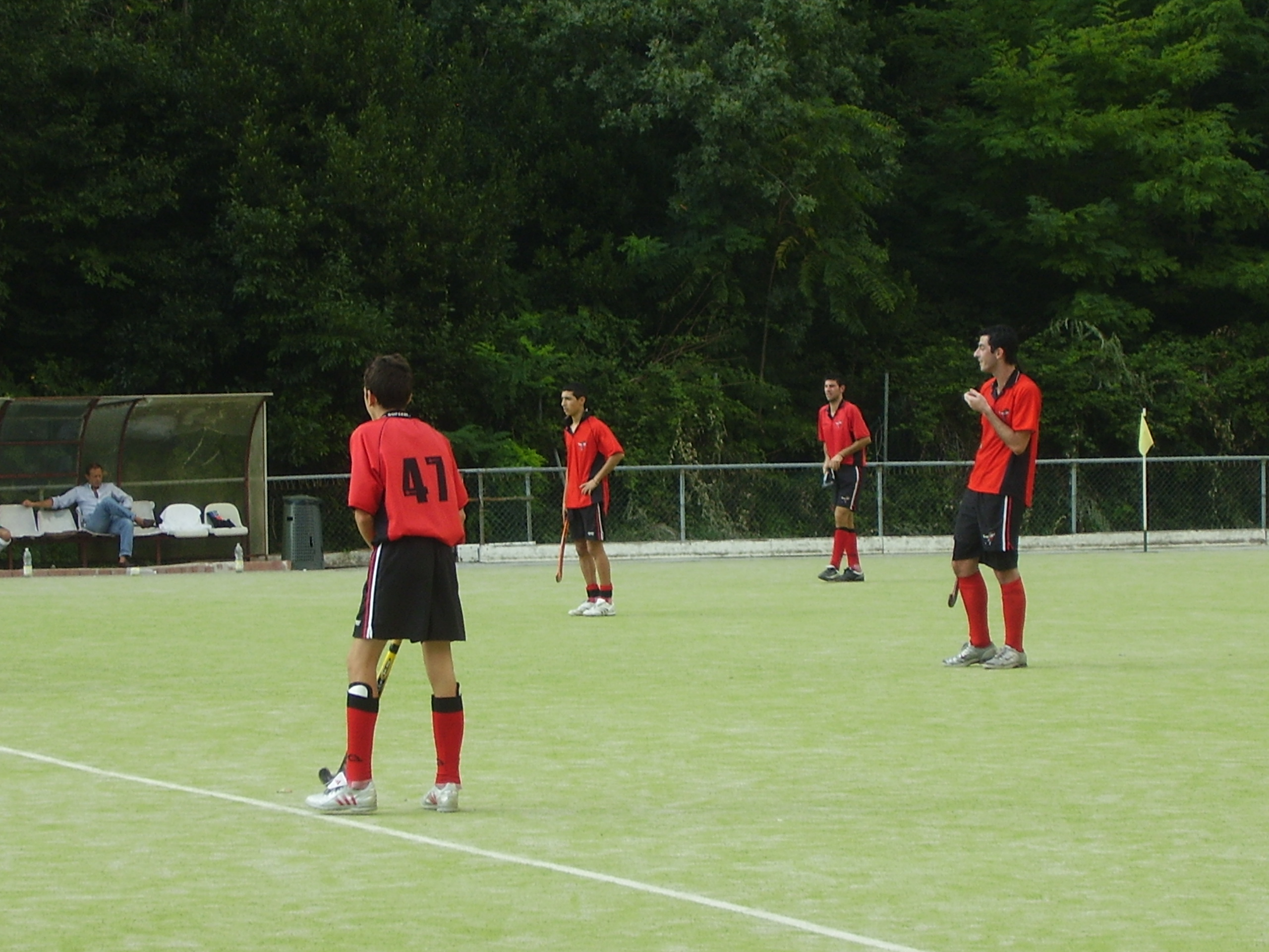 The 60th anniversary of CUS Genova Hockey: match HC Savona vs. HC Superba